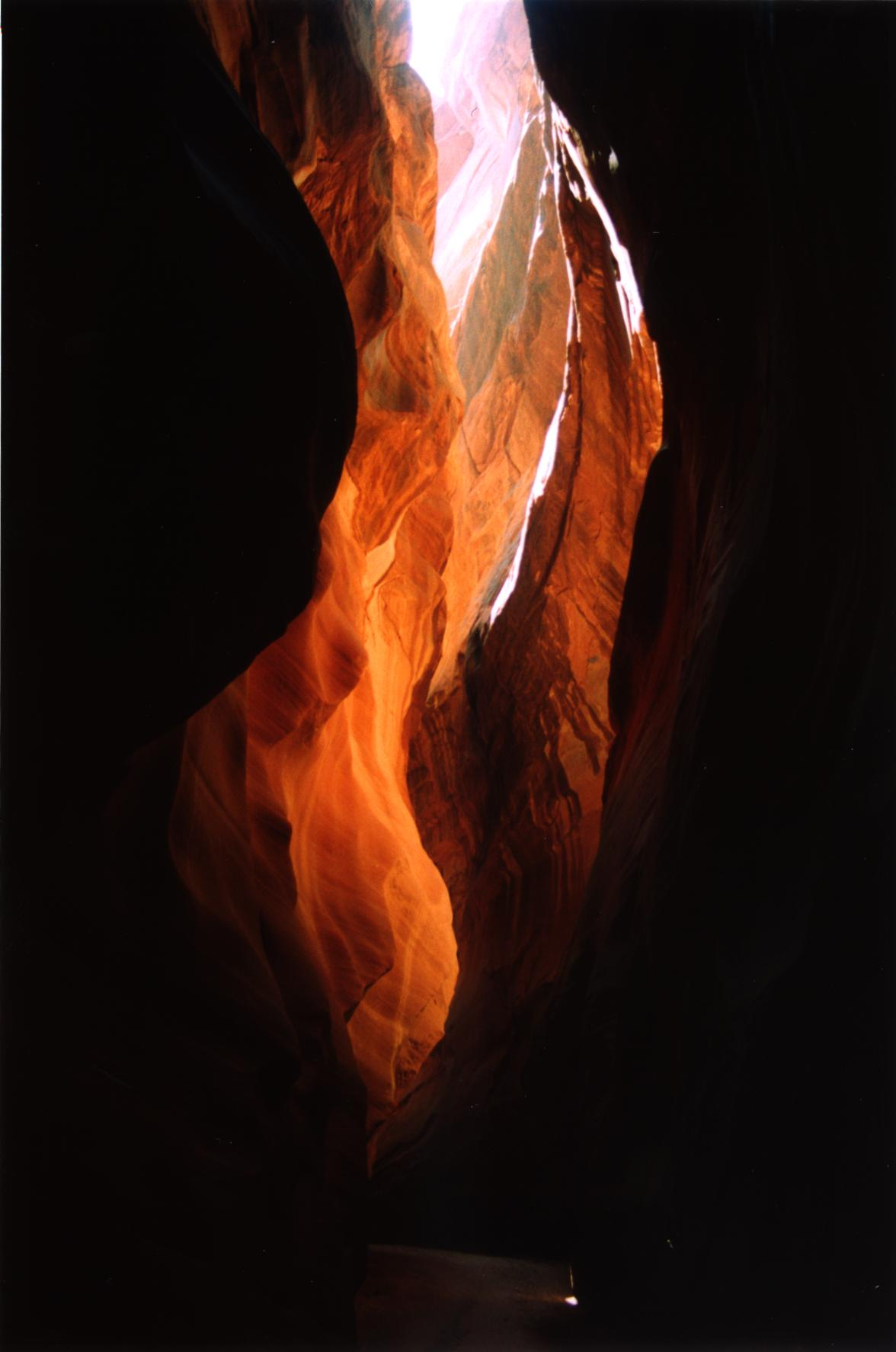 The Buckskin Gulch is a very narrow and long slot canyon. It is located in Kane County, Utah, and is the northeast terminus region of the Buckskin Mountains (Arizona-Utah), at the north of the Kaibab Plateau. Kitchen Corral Wash flows southeasterly through the wash, then through the Paria Canyon-Vermilion Cliffs Wilderness, to meet the Paria River, a northwest Colorado River tributary. Photograph by Ryan Grimm. Taken in July of 2004.